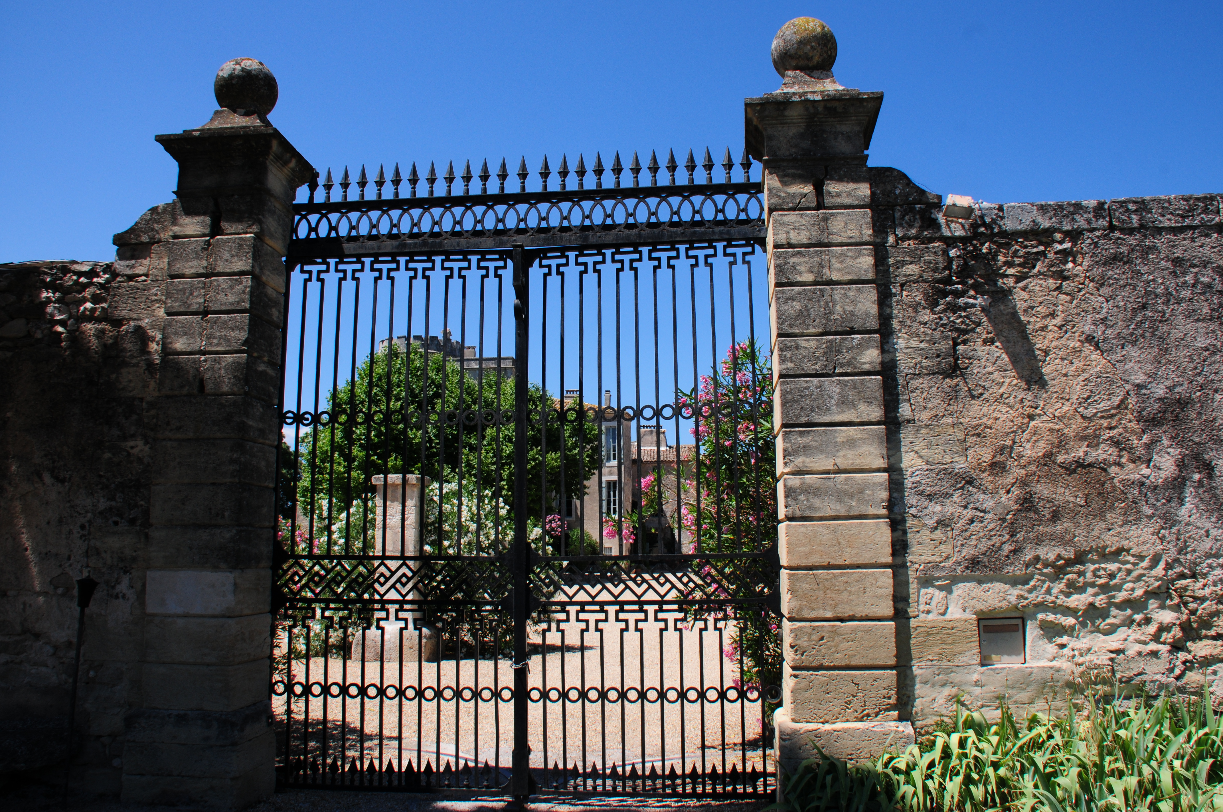 Old Castle near Verargues with nice Oleander flowers